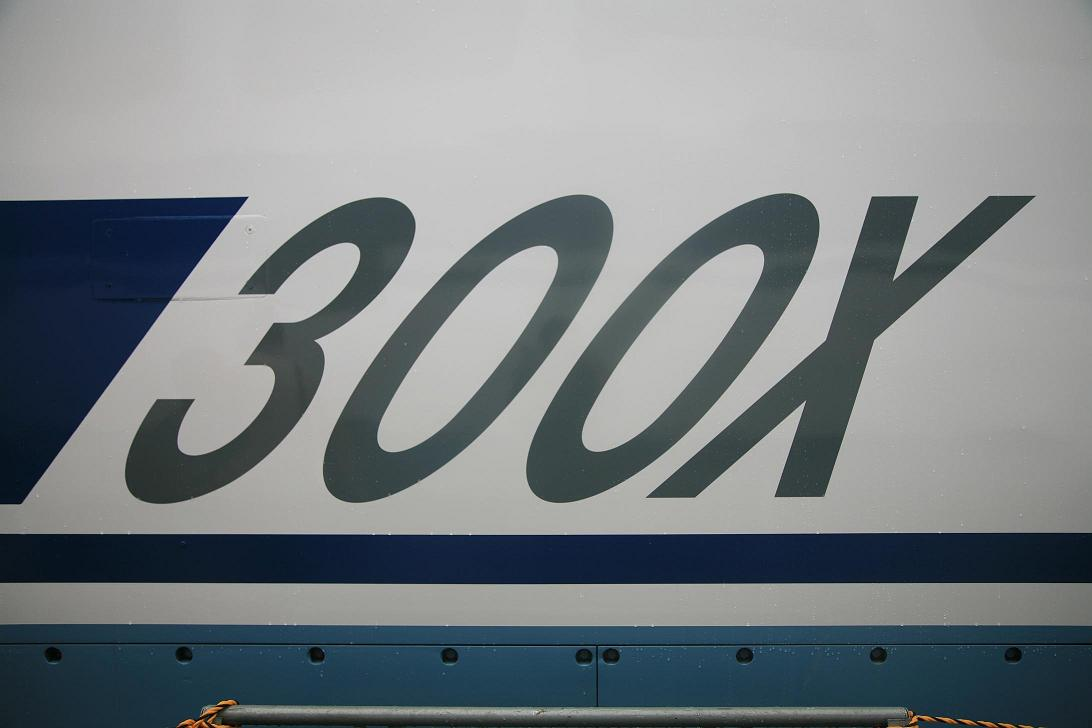 The Emblem of Shinkansen 955 (300X), shown on the side of 955-6